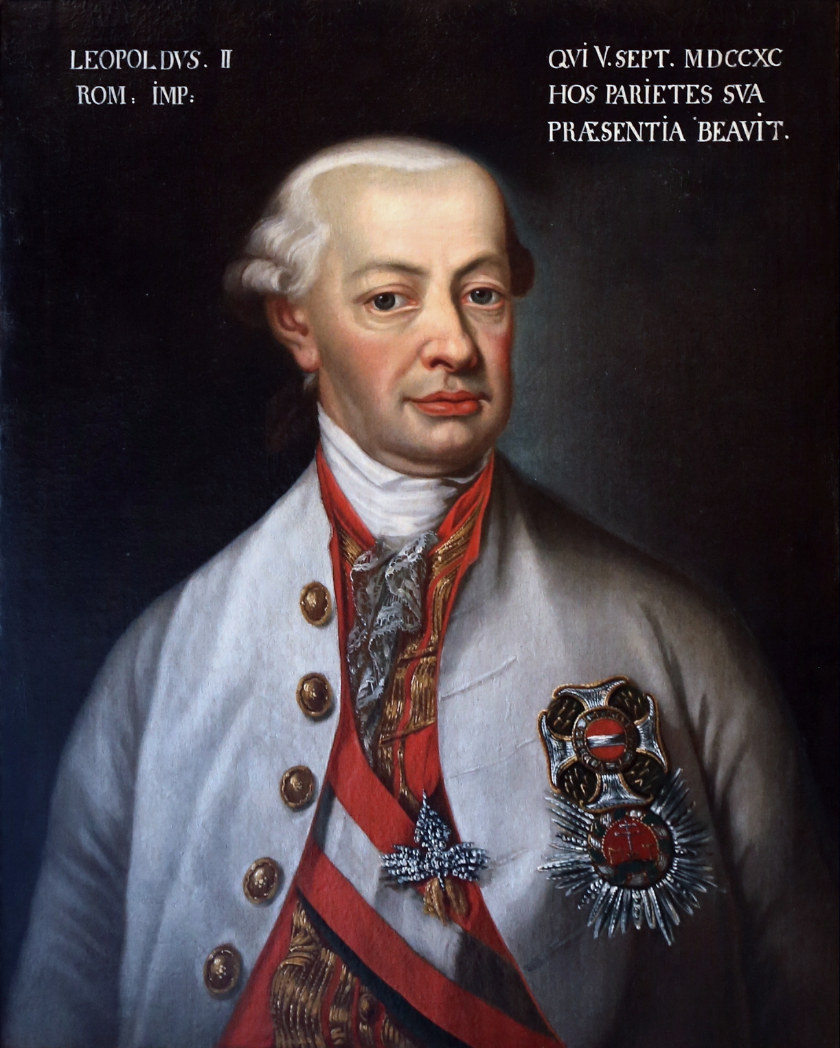 Leopold II, Holy Roman Emperor (1747-1792)